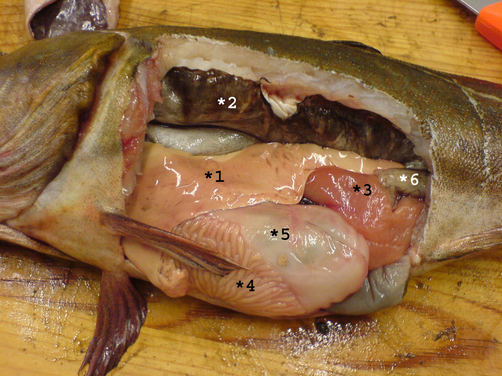 Organs of a codfish (Gadus morhua): 1. Liver, 2. Svømmeblære, 3. Roe, 4. Duodenum, 5. Stomach, 6. Intestine Torskens indre organer.